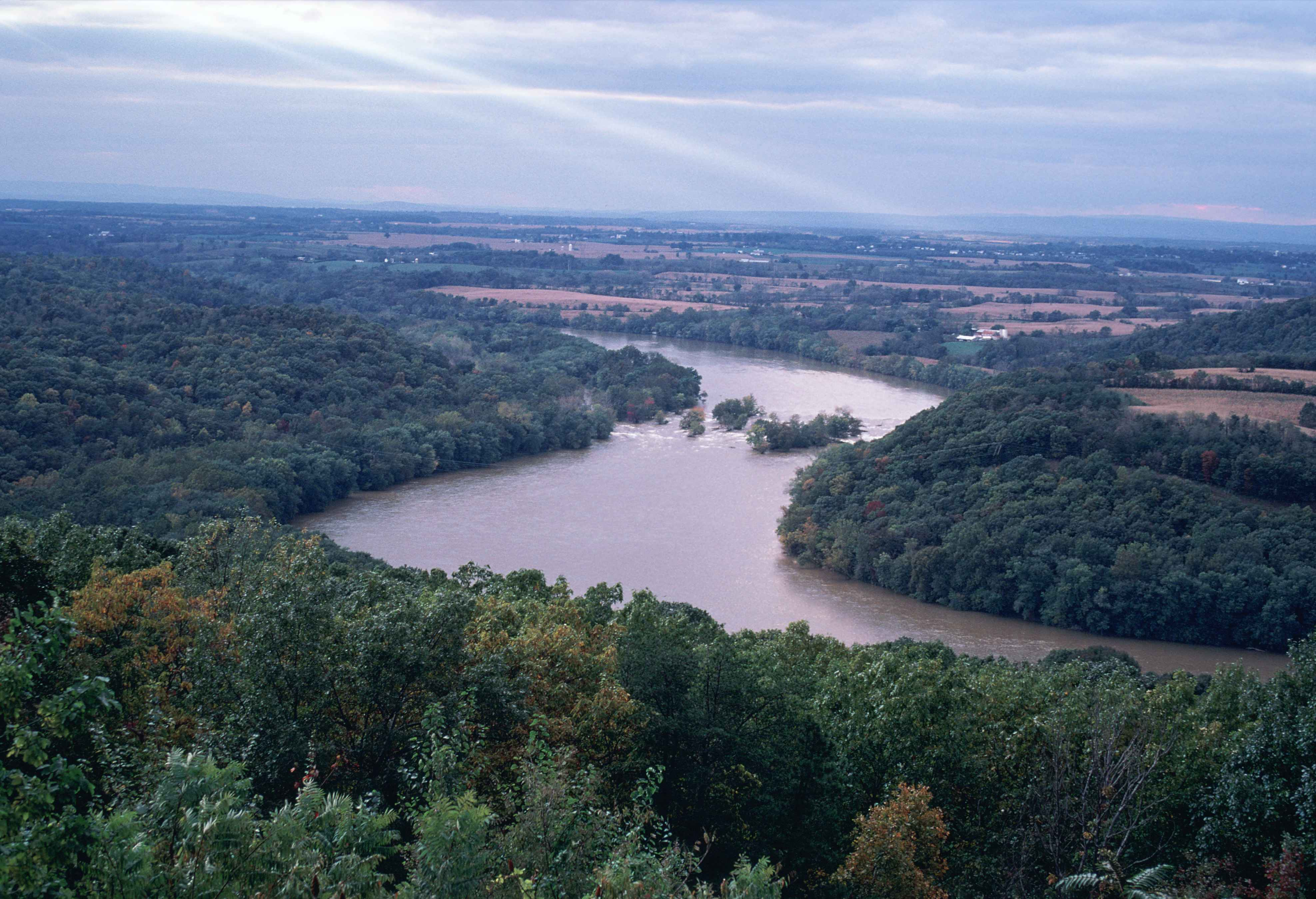 Image title: The Ohio river running between Ohio and West Virginia Image from Public domain images website